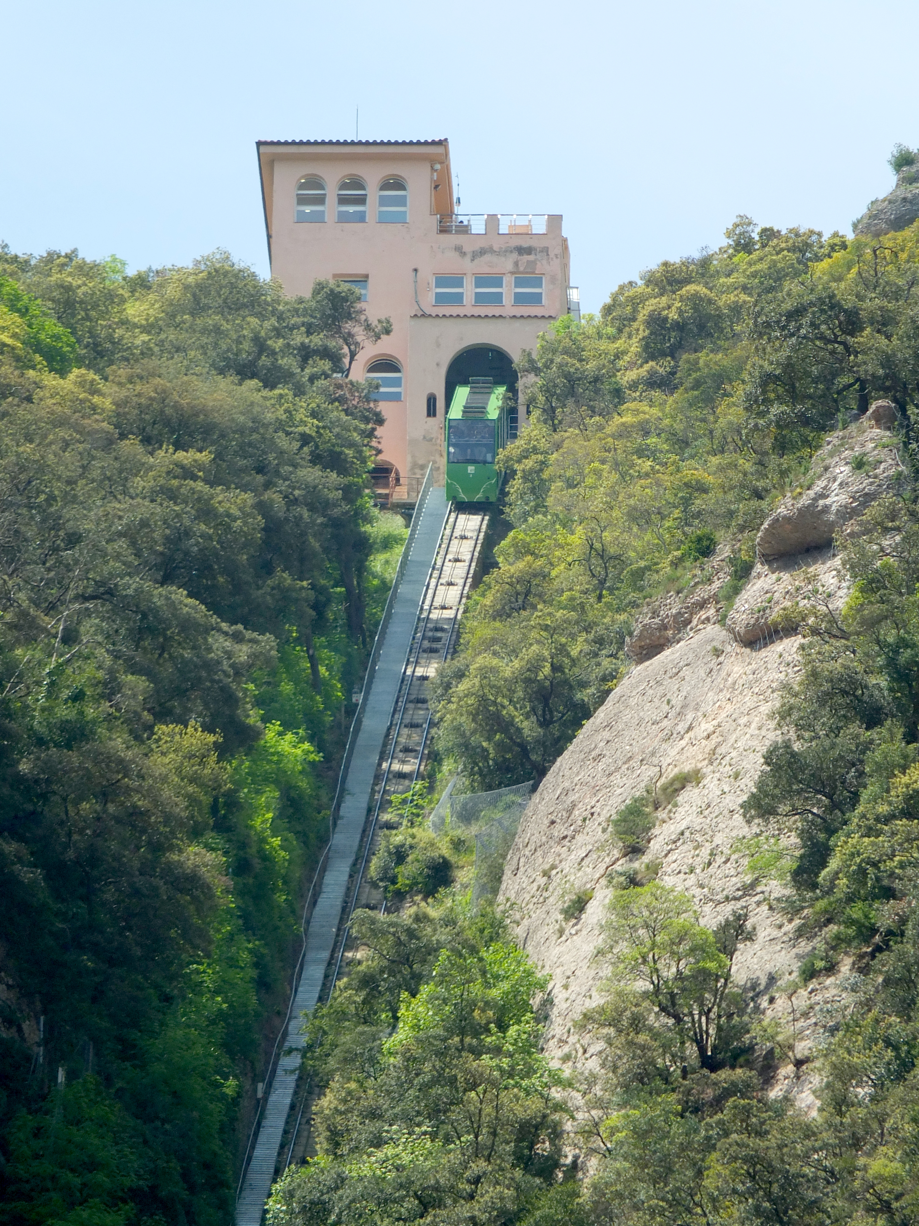 The Sant Joan Funicular (Catalan: Funicular de Sant Joan) is a funicular railway at Montserrat, near Barcelona in Catalonia, Spain. The line connects the monastery, and the upper terminus of the Montserrat Rack Railway, with sacred sites, walking trails and viewpoints higher up the mountain. With a maximum gradient of 65%, it is the steepest funicular in Spain